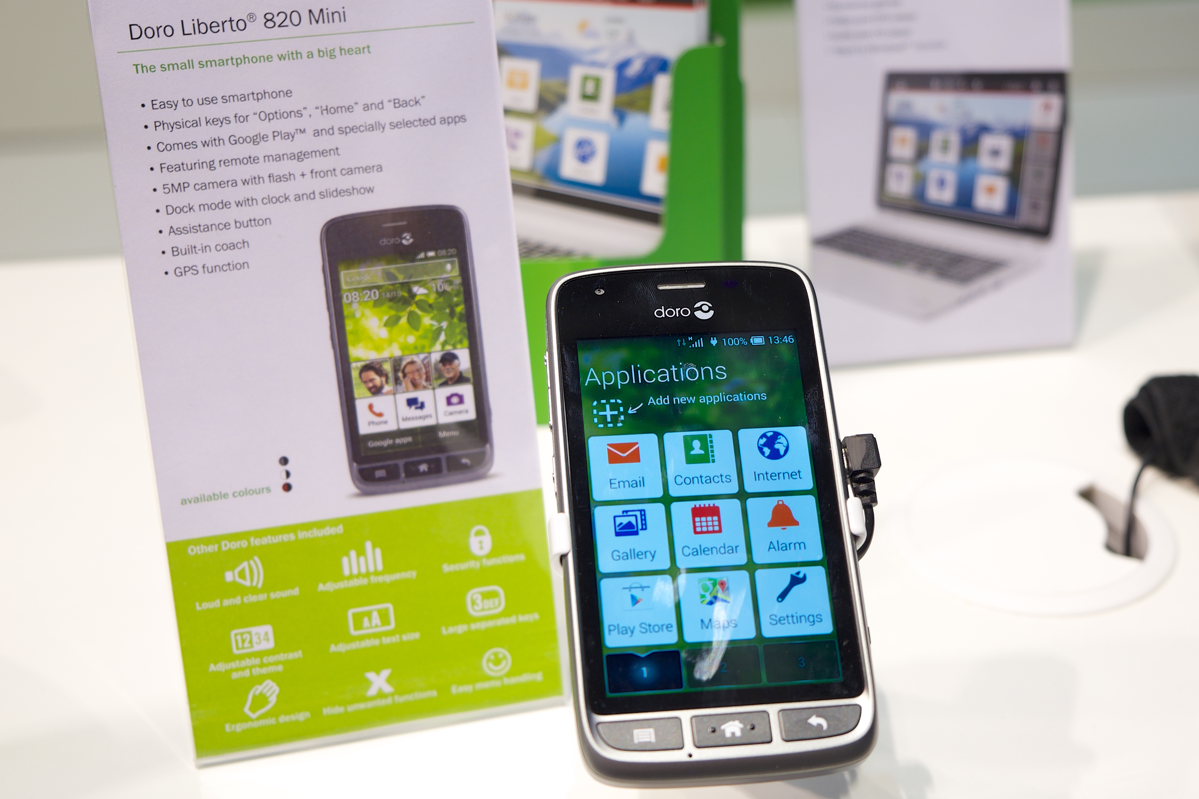 Doro Liberto 820 mini. Doro phone for seniors at Mobile World Congress 2015 Barcelona.